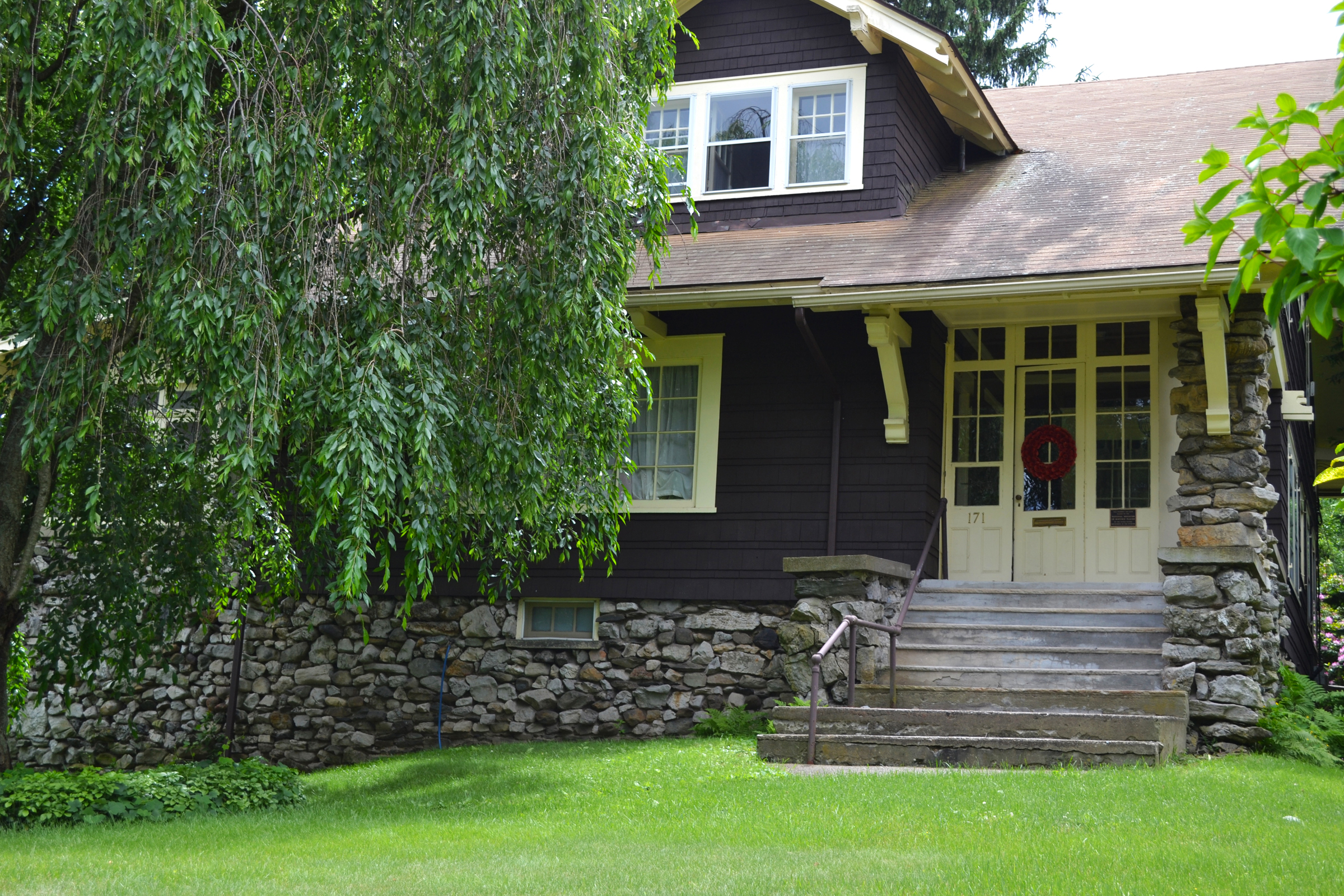 Ethol House Ethol House 171 Hooker Ave. Poughkeepsie, NY. Northern facade